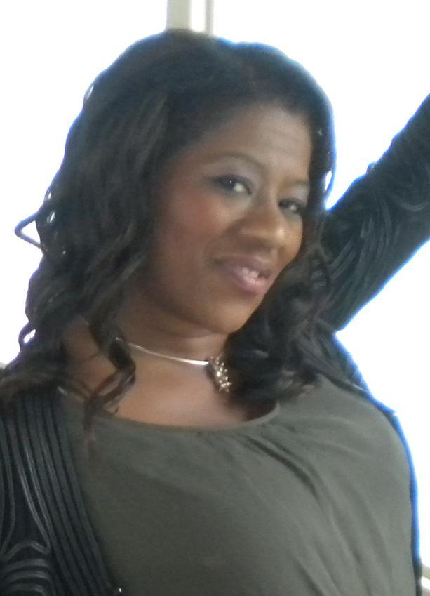 Gladys del PilarPlace: M/S Teaterskeppet at sea between Stockholm and Värmdö, Sweden